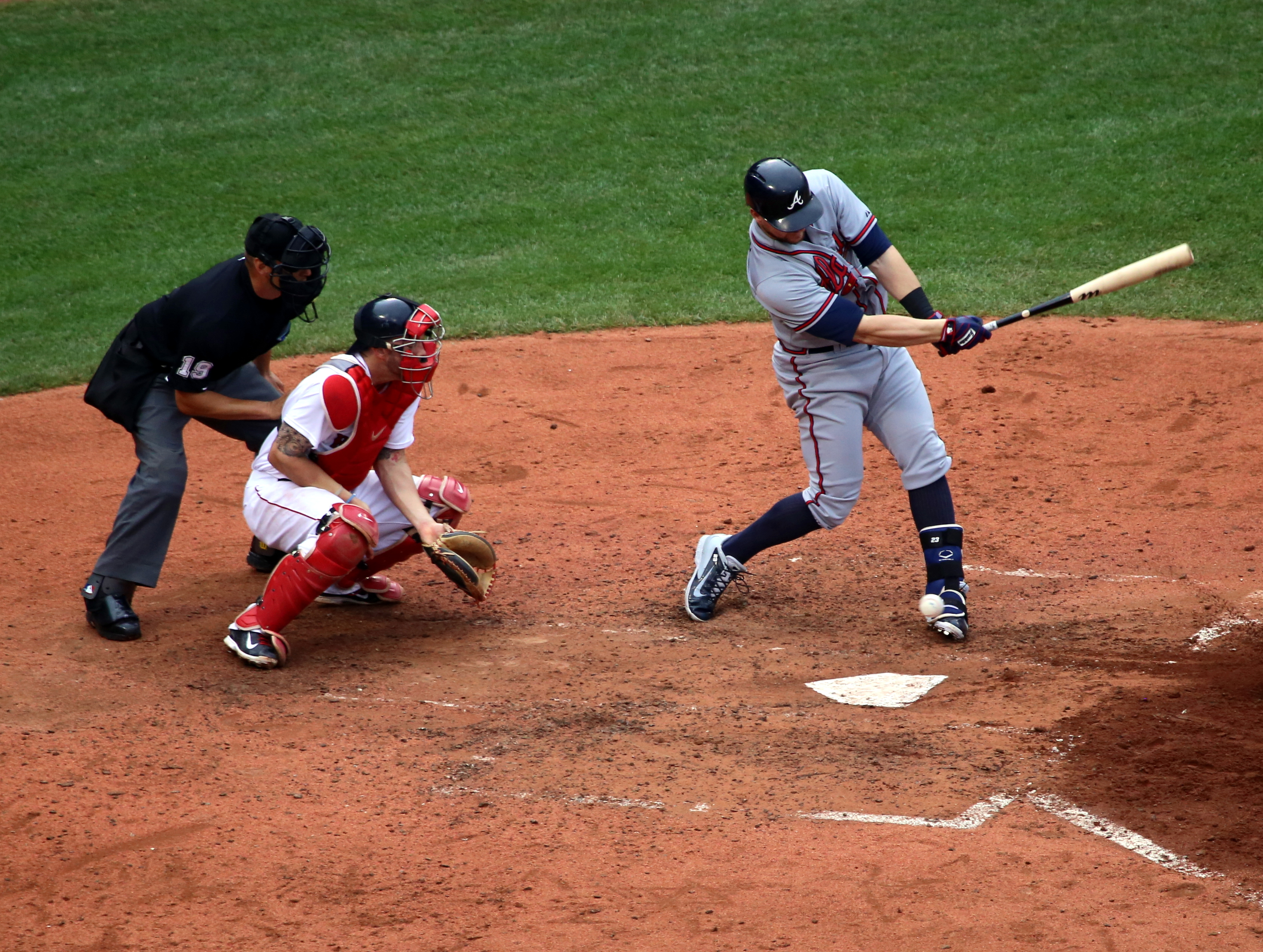 Chris Johnson bats against the Boston Red Sox in a game on June 16, 2015